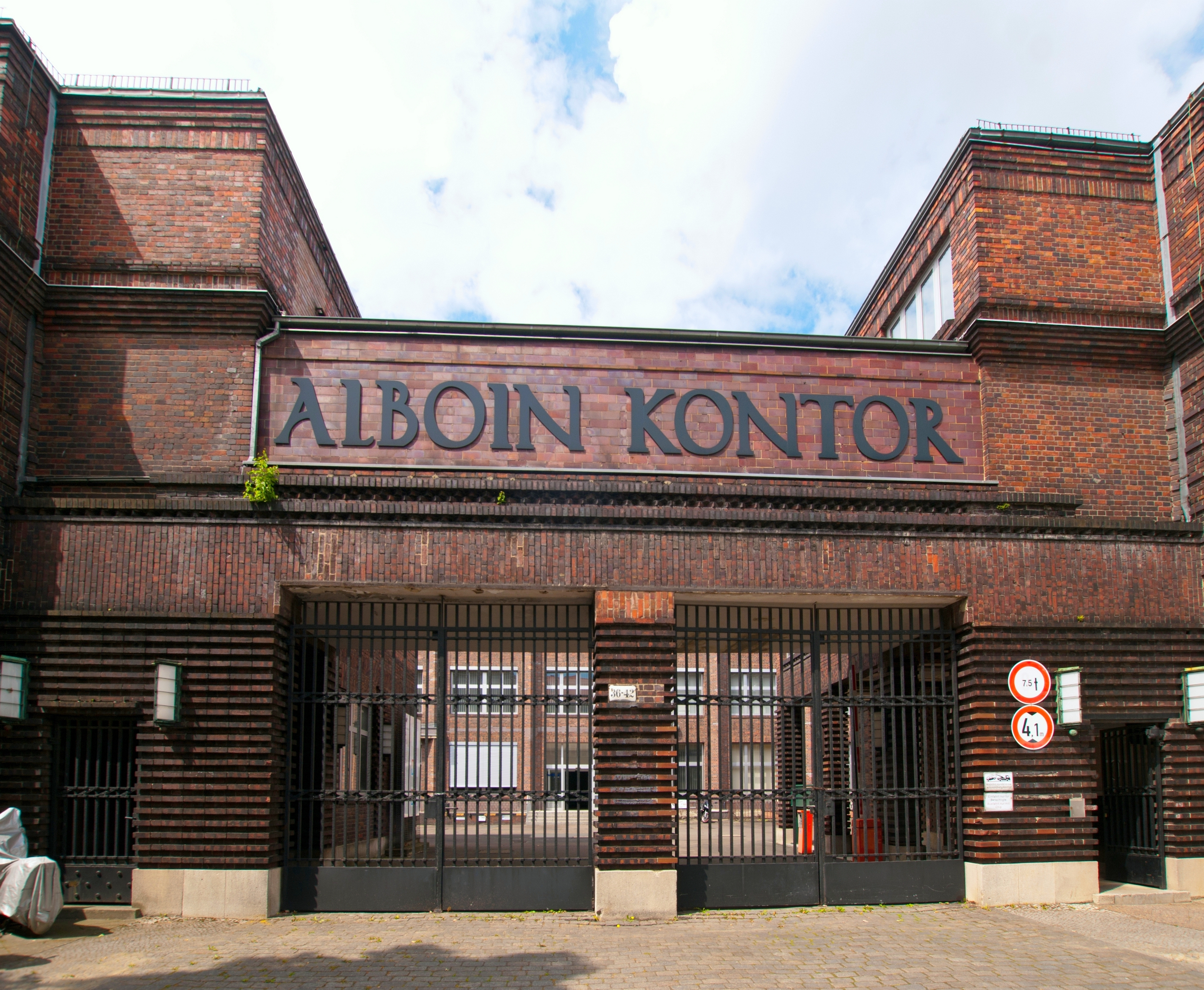 "Alboinkontor", Alboinstraße street in Berlin-Schöneberg